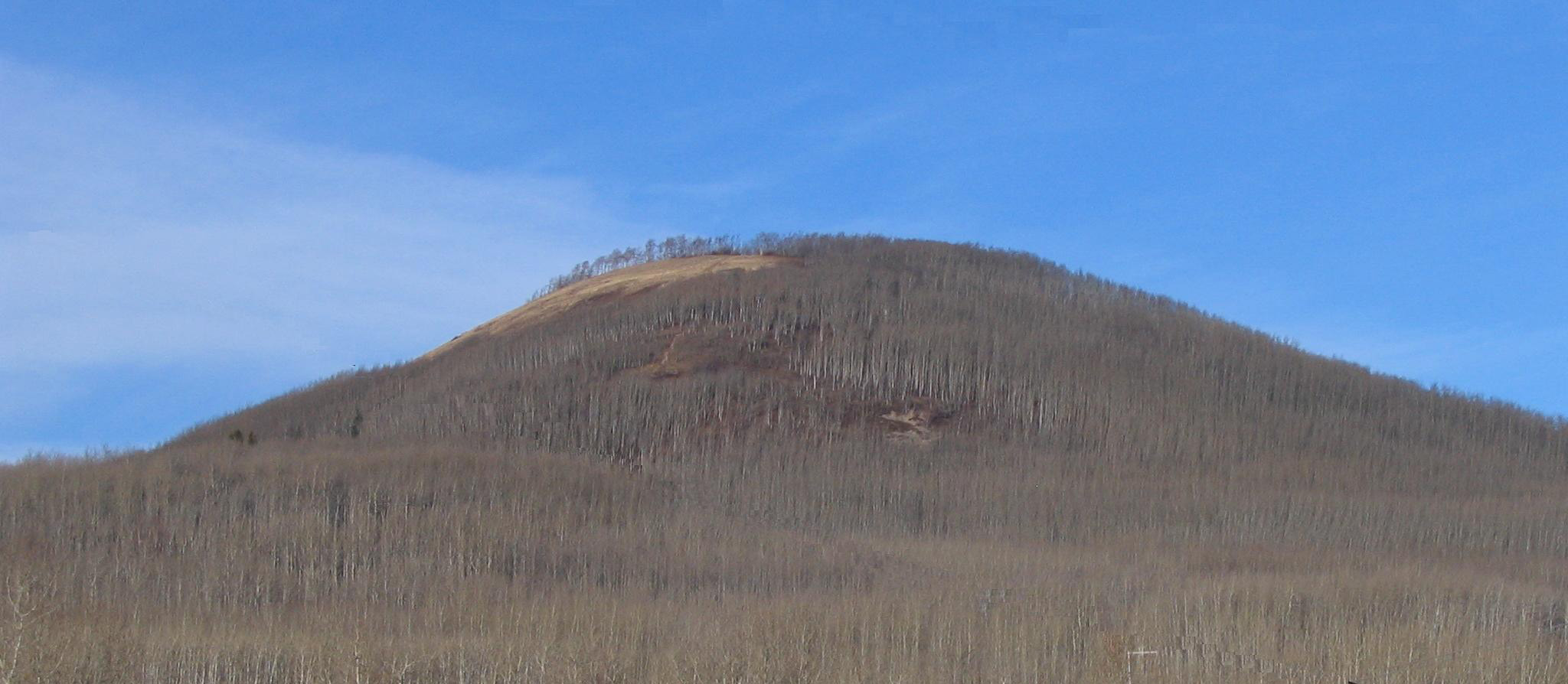 This image shows Mount Baldy, also known as Ol'Baldy Hill, in November 2005. It is within the municipal borders of Chetwynd, British Columbia, but north of the townsite. It acts as a community forest for the town and has a number of inter-connected trails going up and around the mountain that are used for various recreational activities. This photo was taken by maclean25. Summary This image shows Mount Baldy, also known as Ol'Baldy Hill, in November 2005. It is within the municipal borders of Chetwynd, British Columbia, but north of the townsite. It acts as a community forest for the town and has a number of inter-connected trails going up and around the mountain that are used for various recreational activities. This photo was taken by maclean25.